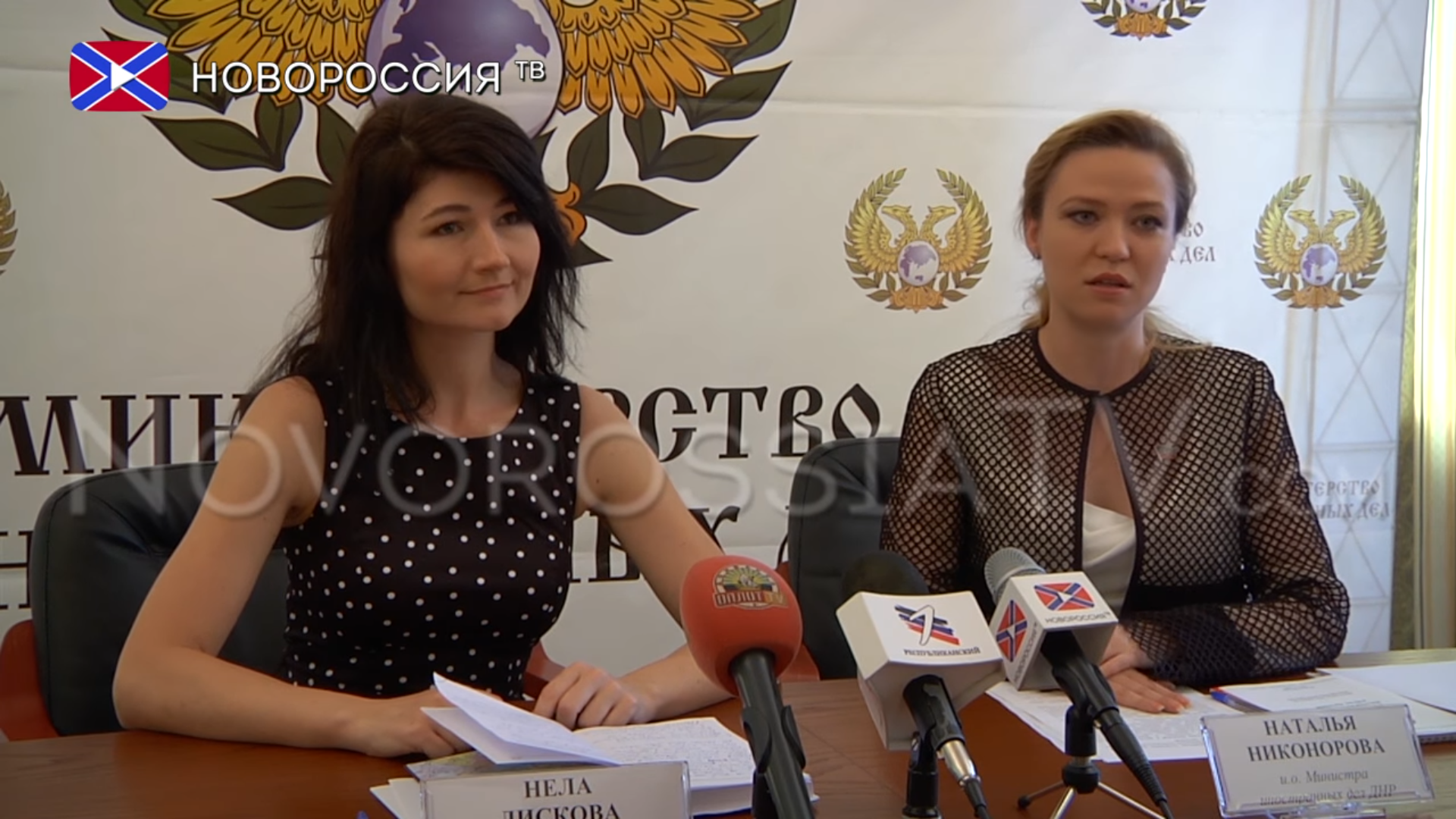 Nela Lisková and Natalya Nikonorova during a press conference in Donetsk, when the Donetsk People's Republic representative center was announced to be opened in Ostrava, Czech Republic.